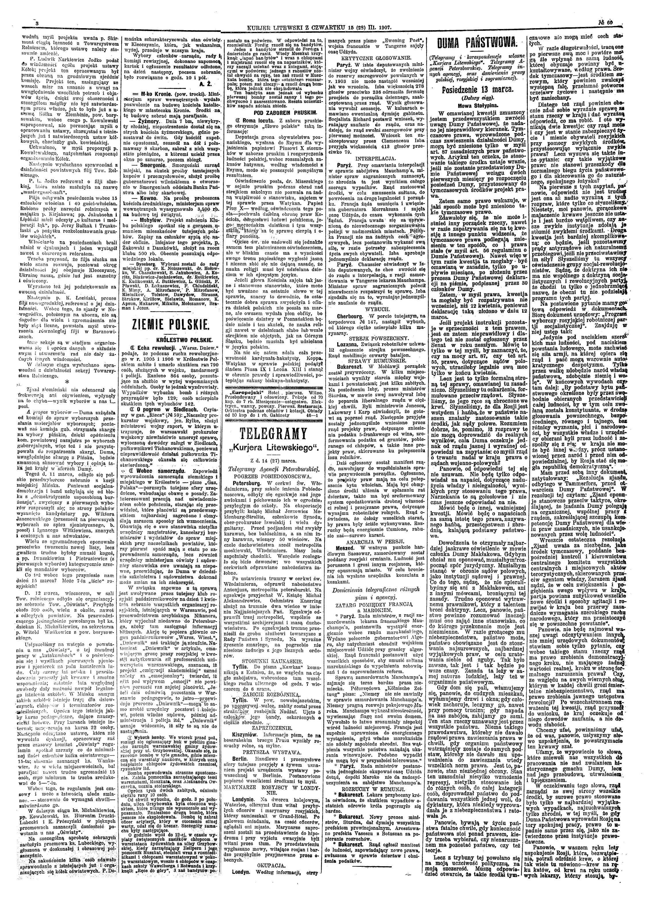 third page of newspaper "Kuryer Litewski" (#60, 1907 AD), Russian empire